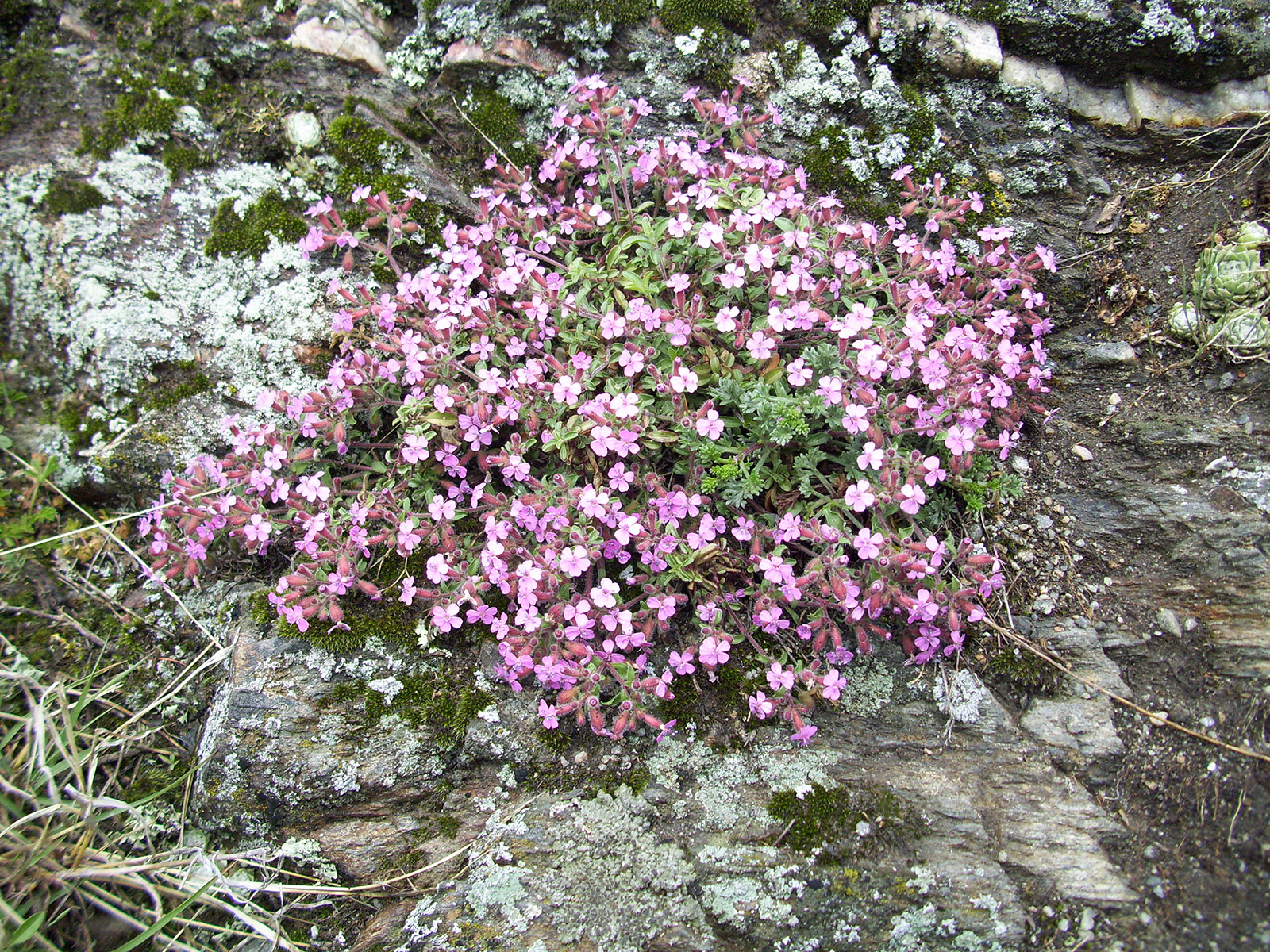 Saponaria ocymoides L. - Italy, Vinschgau, Mals, Tartscher Bühel, 2010-05-06